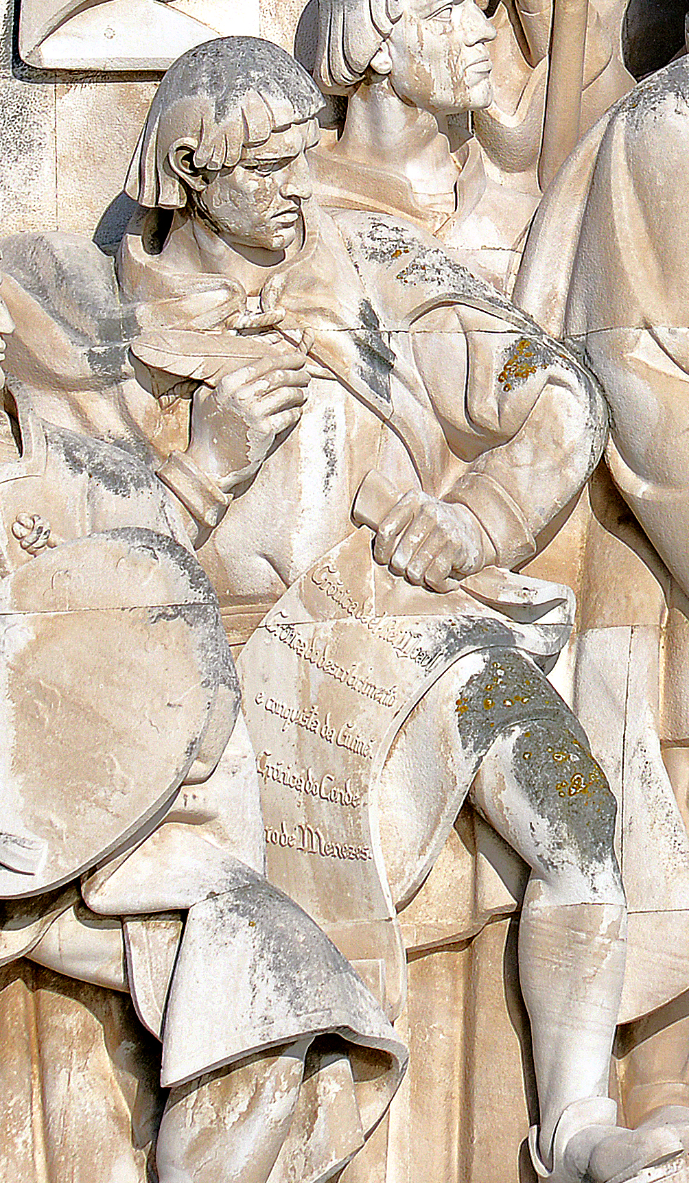 Effigy of Gomes Eanes de Zurara (1410-1474), royal chronicler of Portugal, in the Padrão dos Descobrimentos (Monument to the Discoveries), in Lisbon, Portugal.